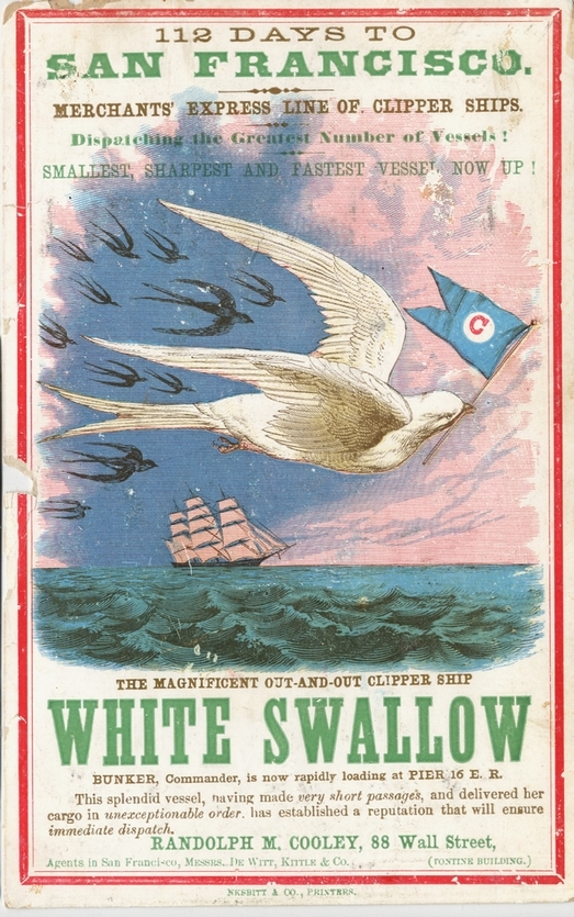 Sailing card for the clipper ship White Swallow.